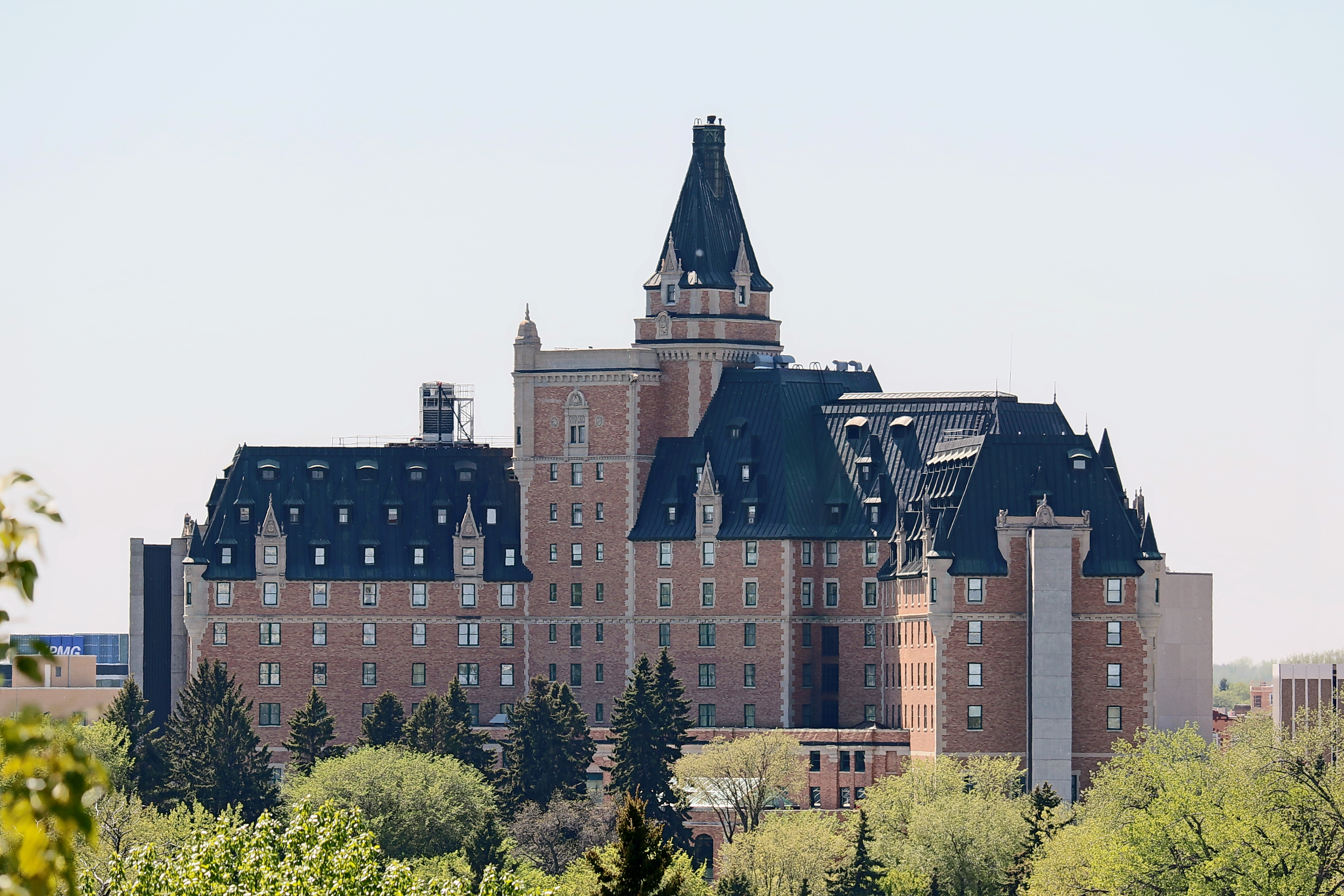 Delta Bessborough, Spadina Cres E, Saskatoon, Saskatchewan, Canada